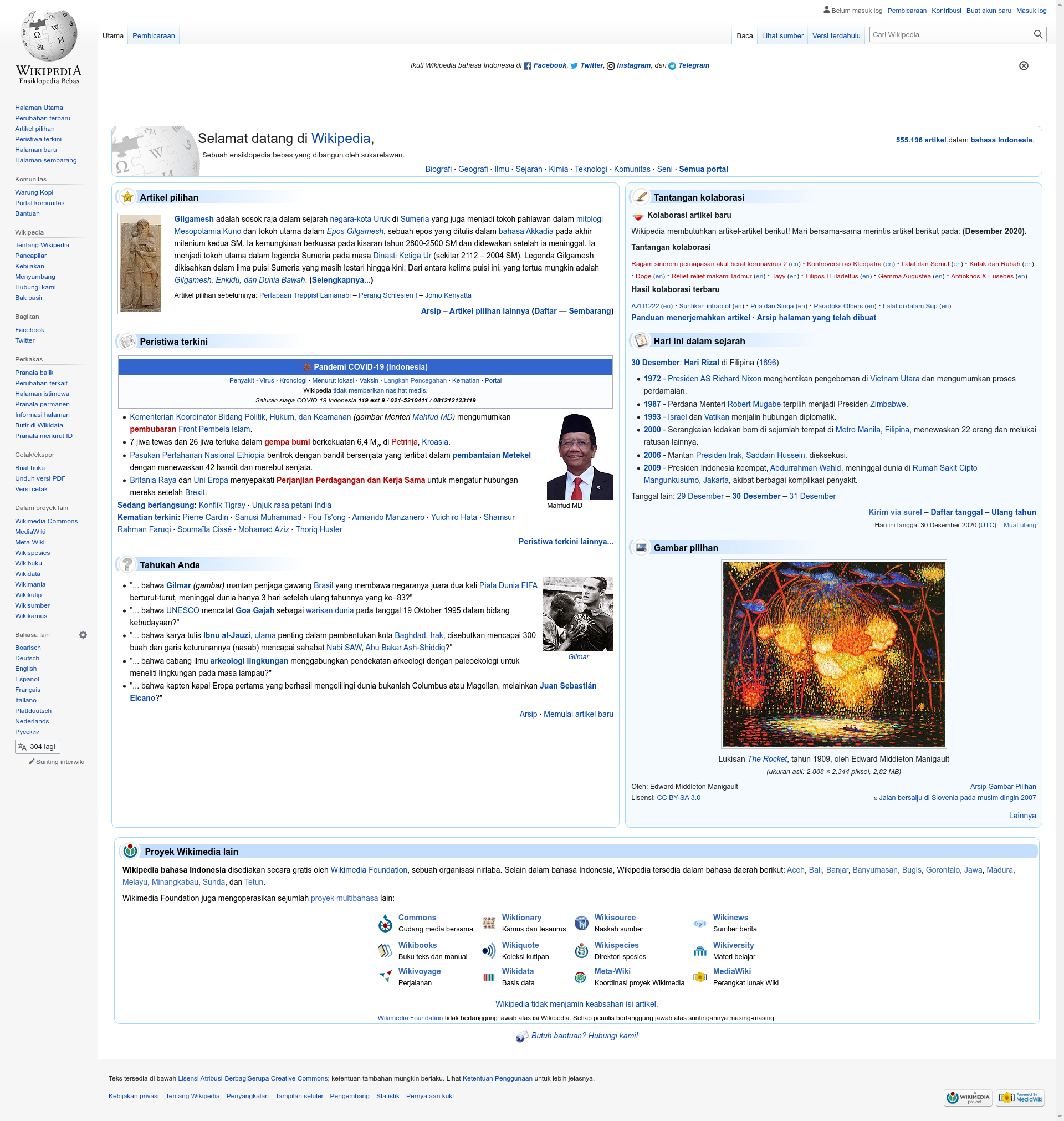 Screenshot of Indonesian WikipediaBahasa Indonesia: Screenshot dari Wikipedia bahasa Indonesia